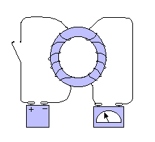 Electromagnetic induction network.gif